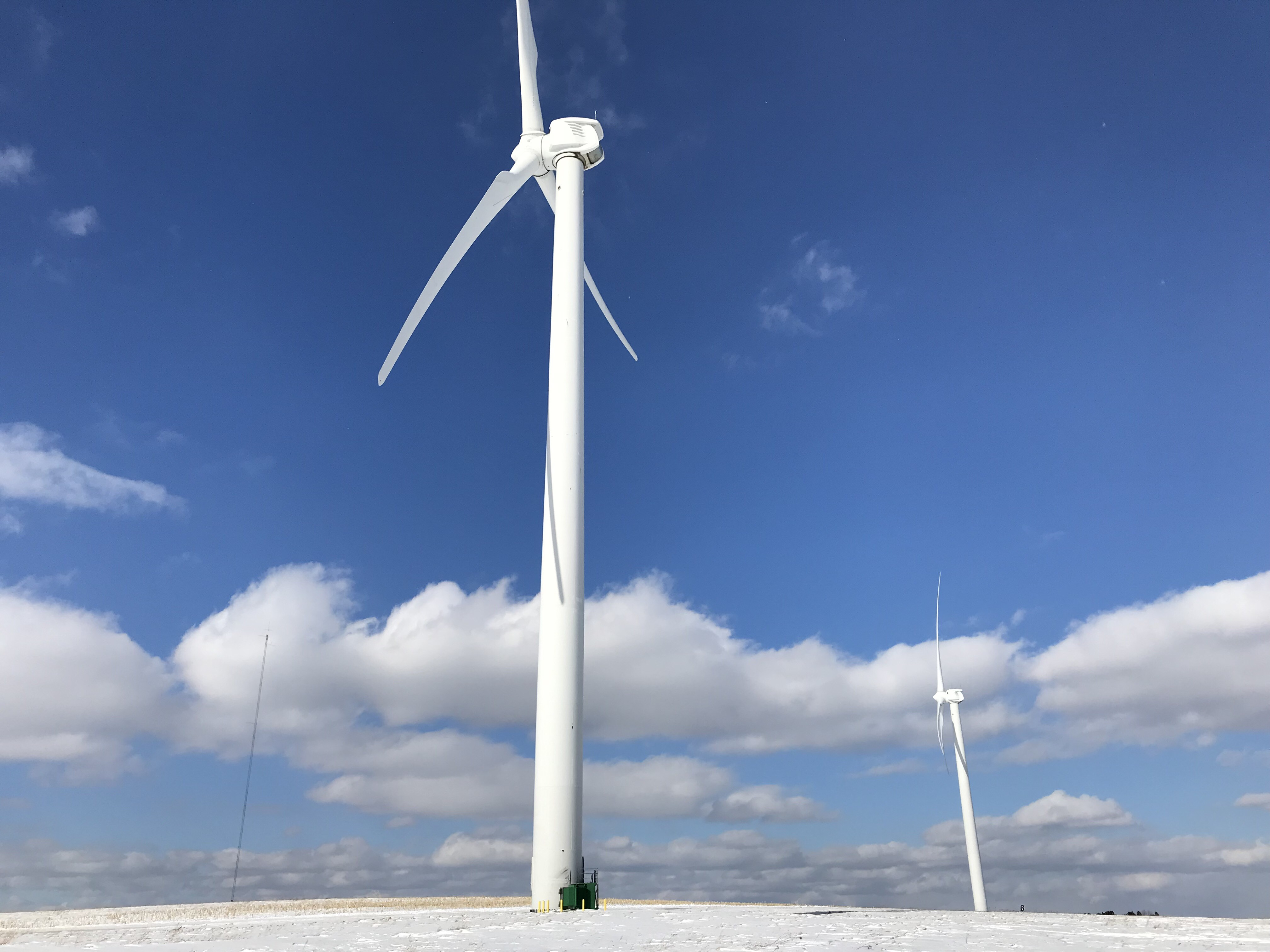 The three southerly Dutch Hill/Cohoctan Wind Farm Clipper turbines and permanent met mast, from Van Aucker Rd.